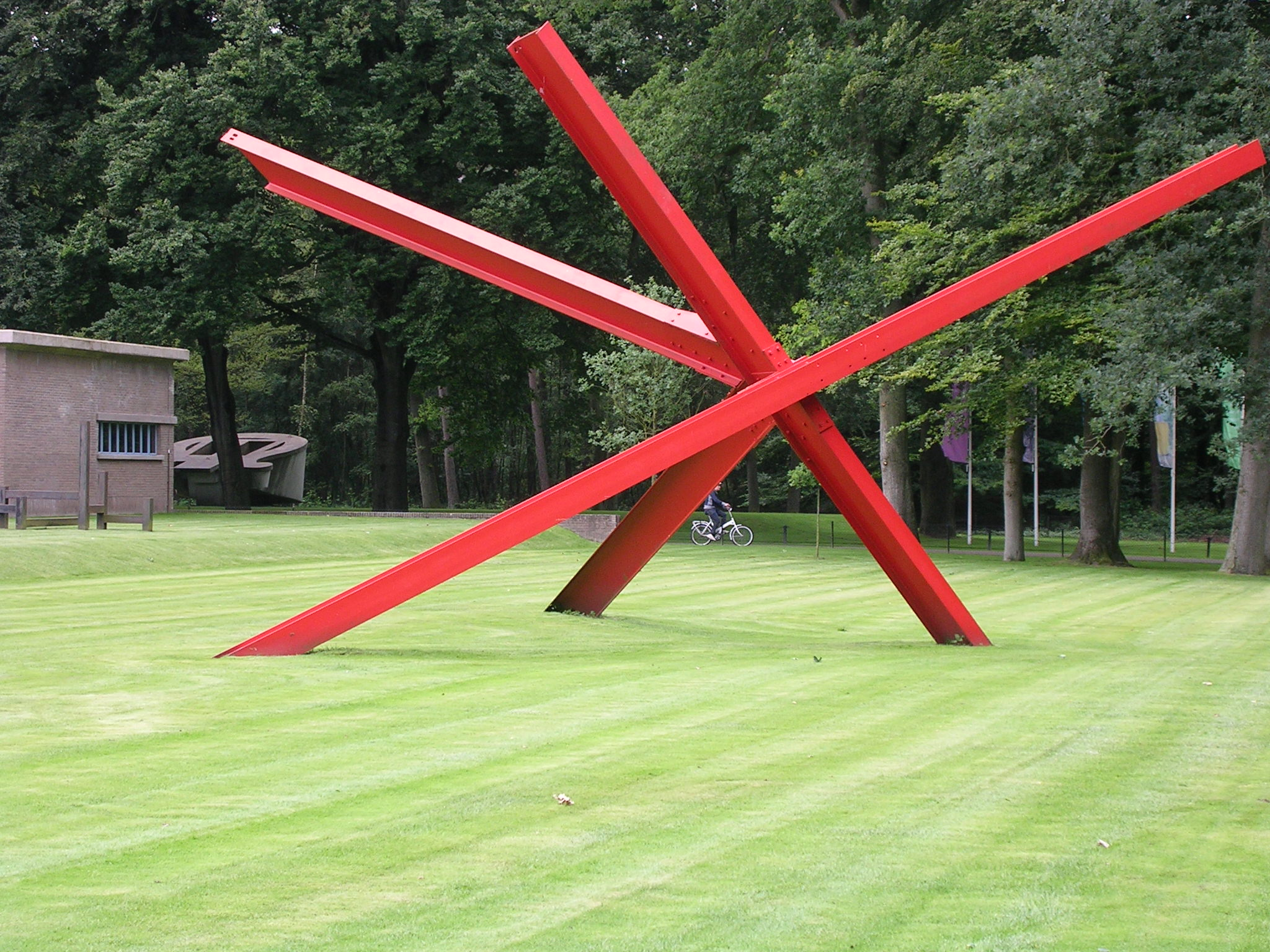 sculpture K-piece (1972) by Mark di Suvero in front of the Kröller-Müller Museum in Otterlo//The Netherlands